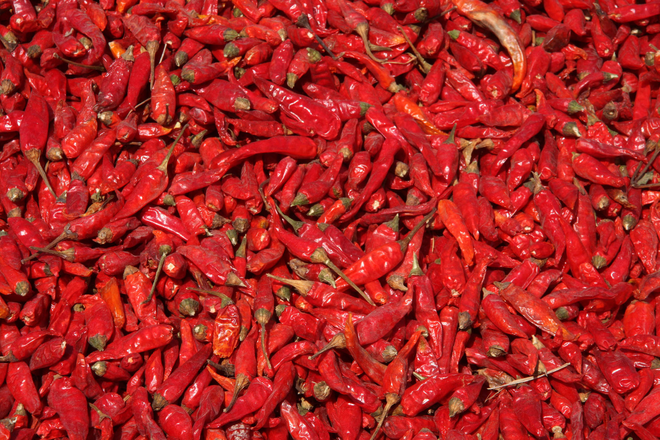 Longi variety of Chilies from Kunri